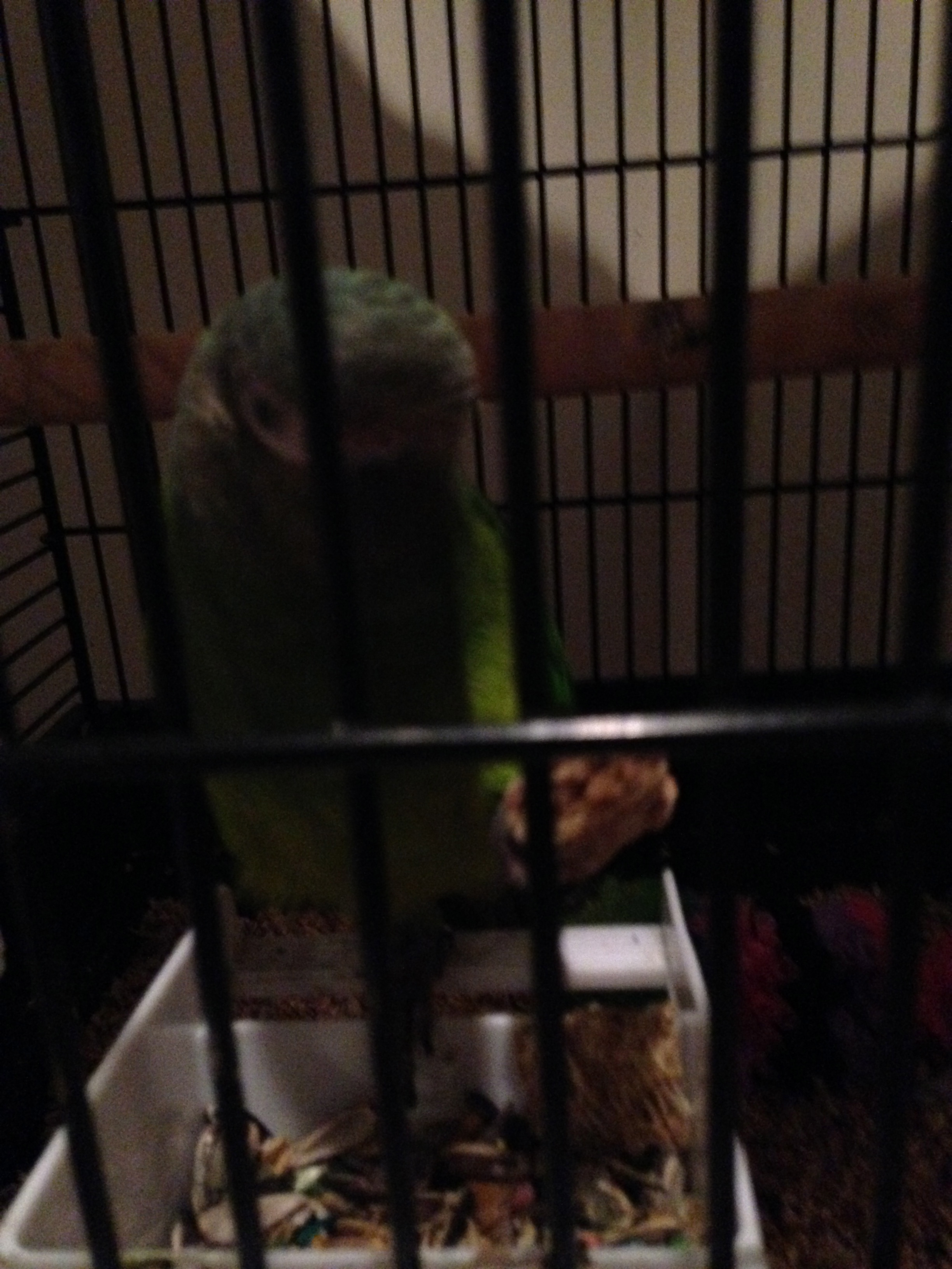 Dusky conure in a cage